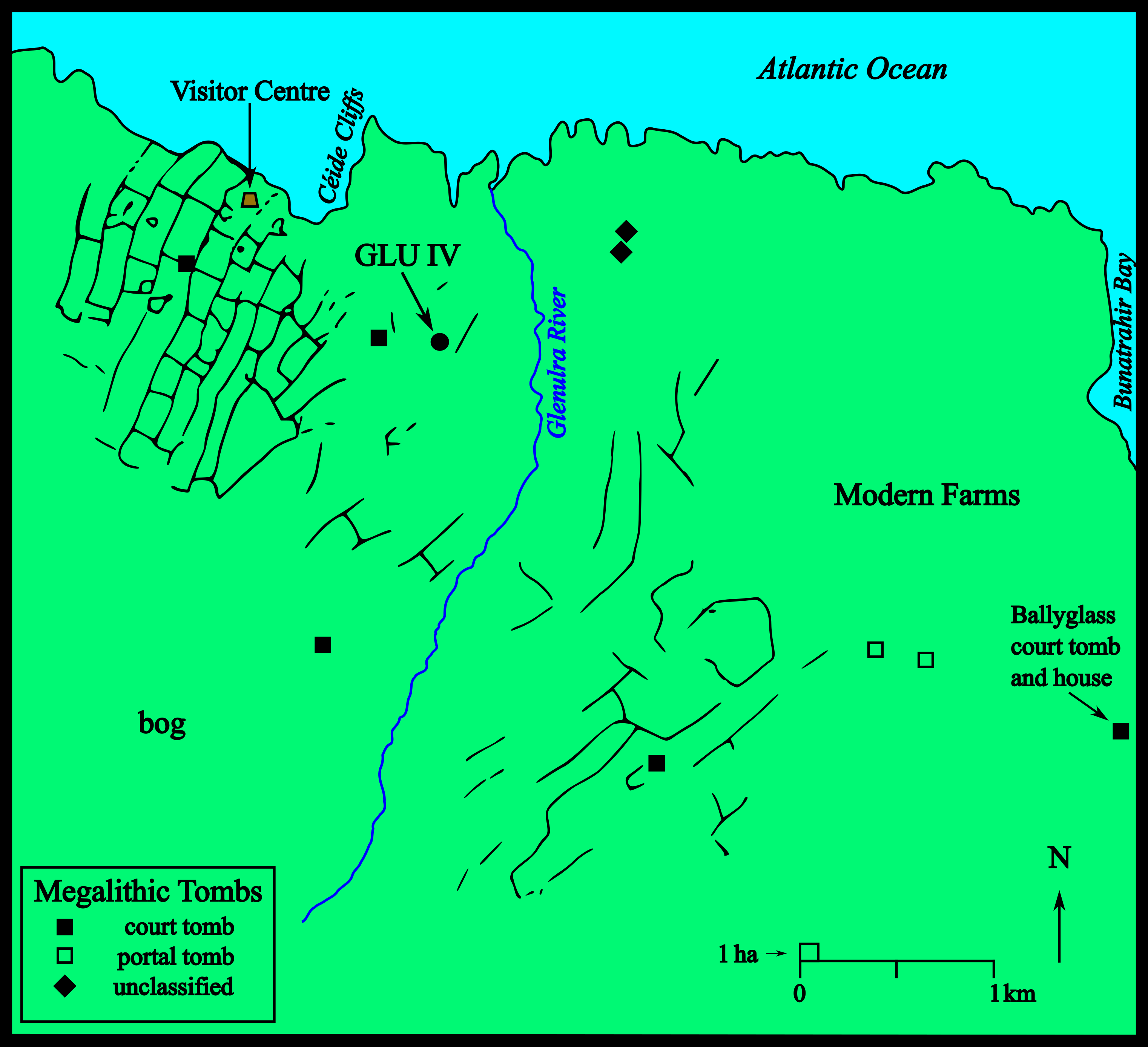 Map of the Céide Fields archaeological site, County Mayo, Ireland. My own work after Caulfield et al, Dating of a Neolithic Field System at Céide Fields, County Mayo, Ireland, Radiocarbon, 40:629–40